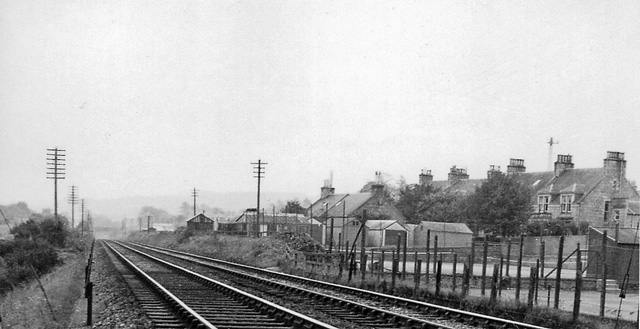 Site of Bankhead (Aberdeen) Station. View SE, towards Aberdeen; ex-GNSR Aberdeen - Huntly etc. main line: a suburban station closed 5/4/37. Believe me, there was a station - just there!